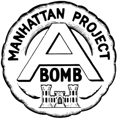 Unofficial emblem of the Manhattan project, circa 1946.